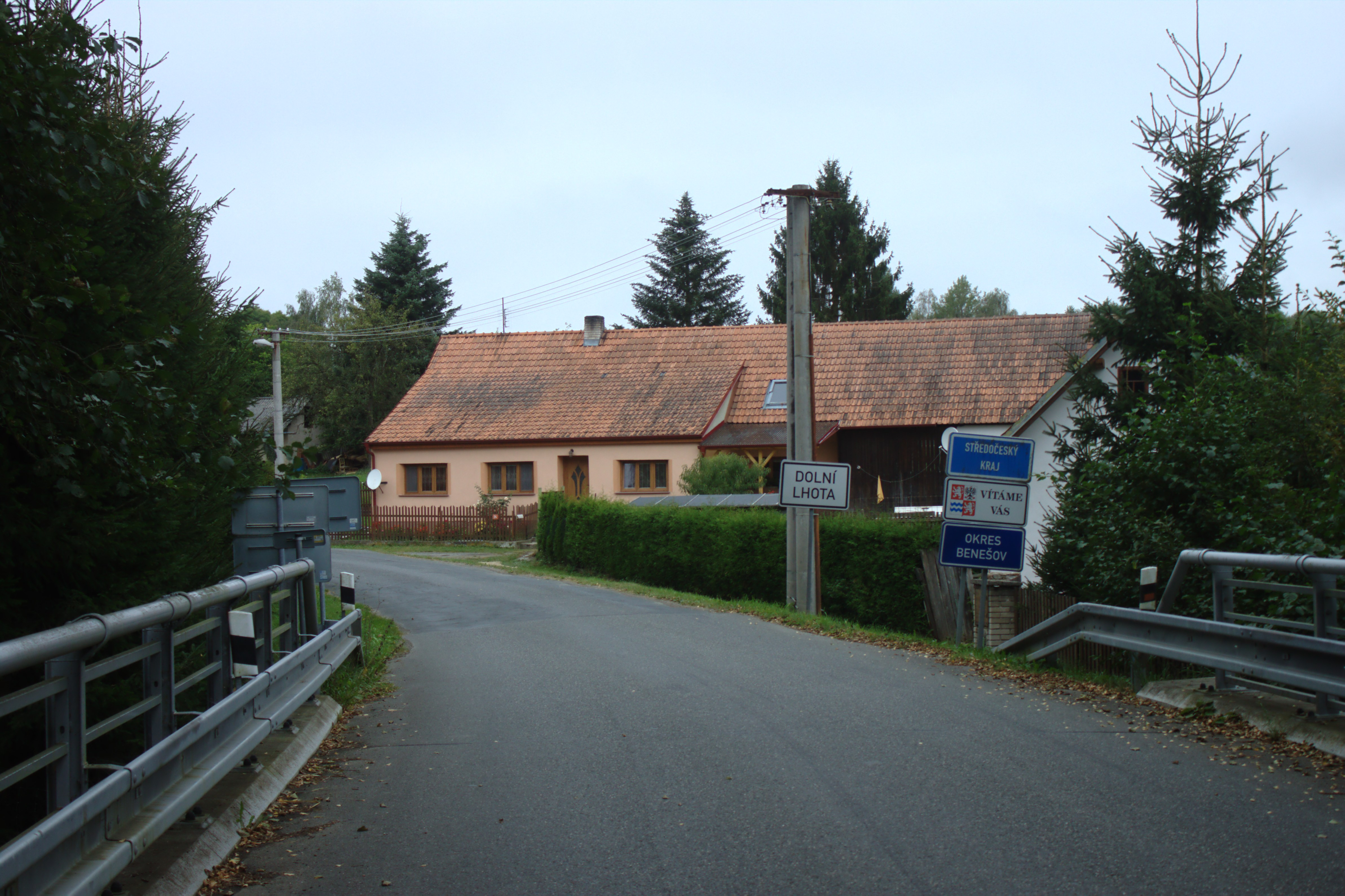 Southern edge of the village of Dolní Lhota, Central Bohemia